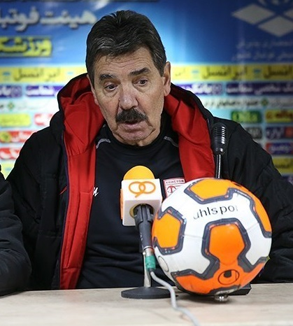 Tractor Sazi manager, Toni Oliveira in press conference after Naft Tehran match in Takhti Stadium